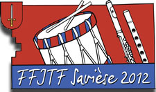 2. Eidg Jungtambouren- und Pfeiferfest Savièse 2012, Schweiz